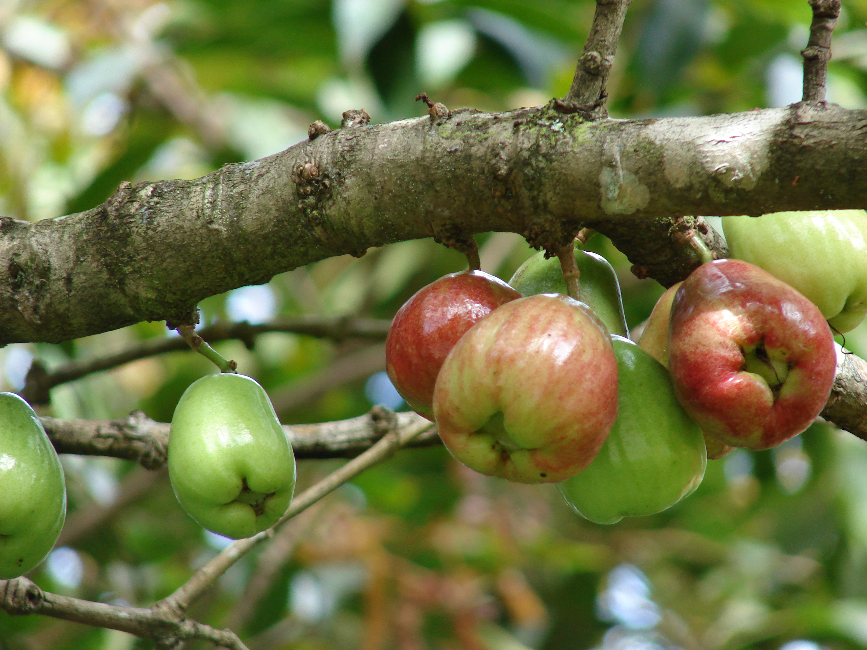 Syzygium malaccense (fruit). Location: Maui, Hana Hwy